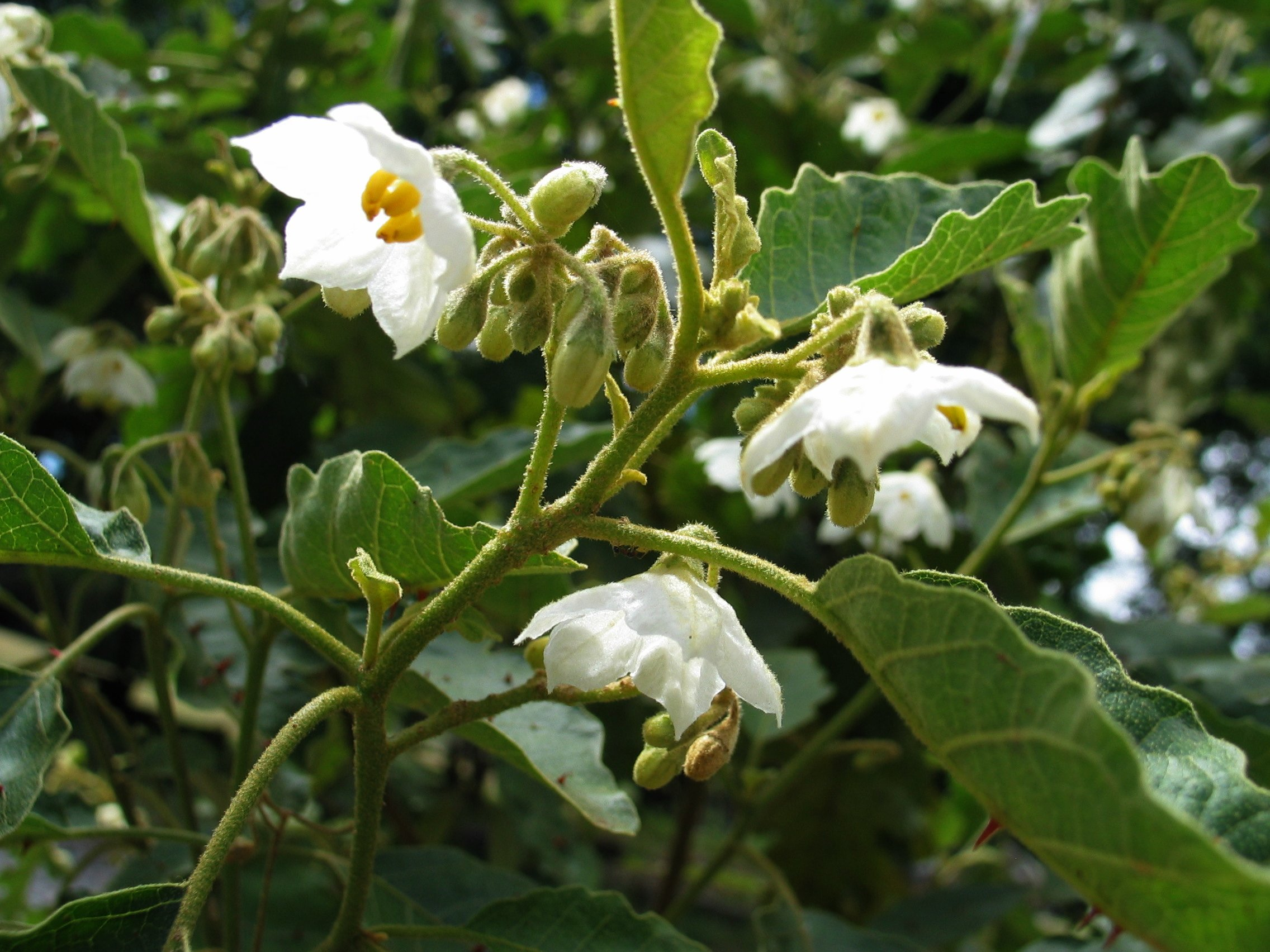 Pōpolo kū mai Solanaceae Endemic to the Hawaiian Islands Endangered Hawaiʻi Island (Cultivated)